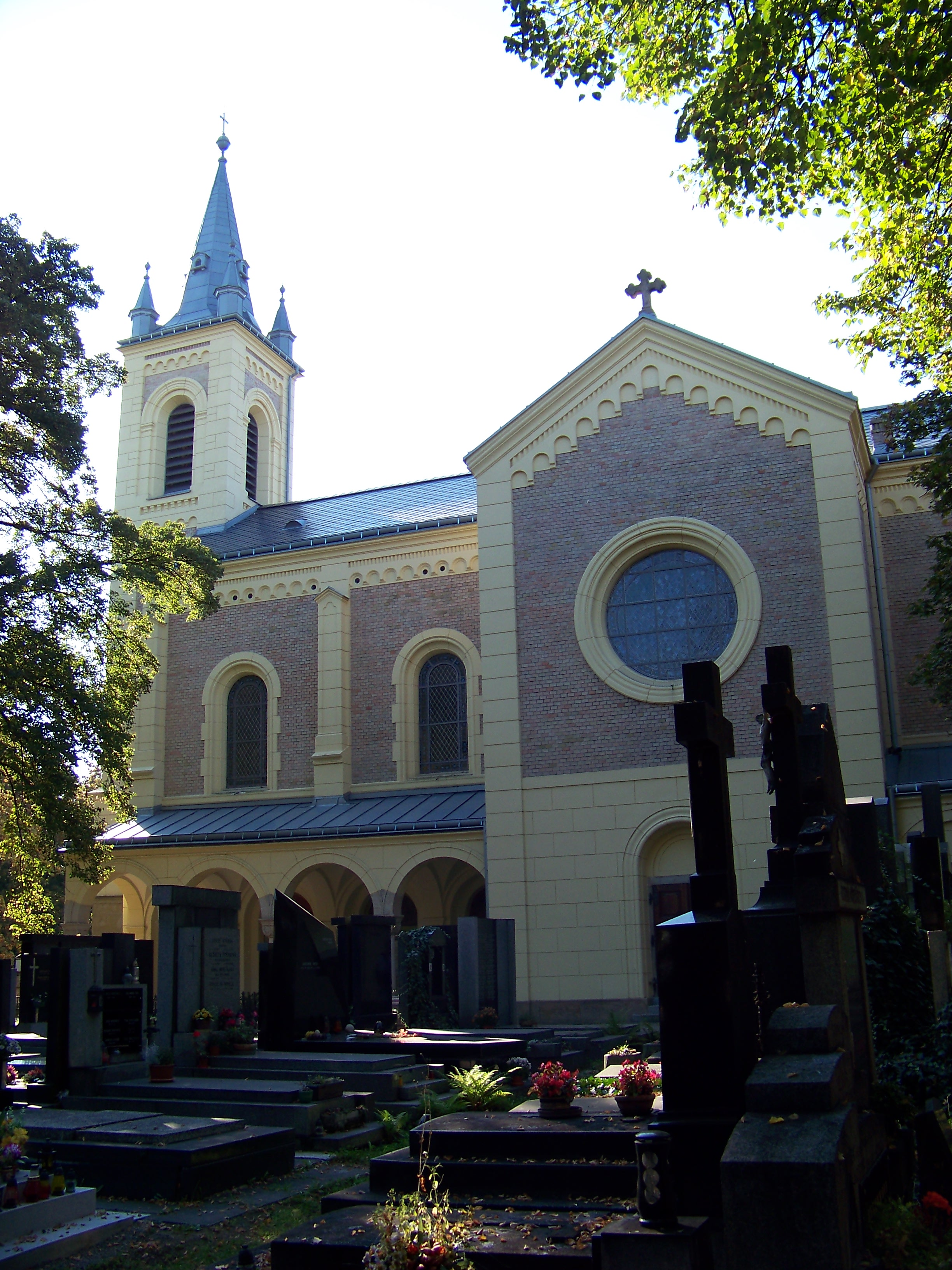 Prague-Smíchov, the Czech Republic. Malvazinky Cemetery, church of Saints Philip and James.